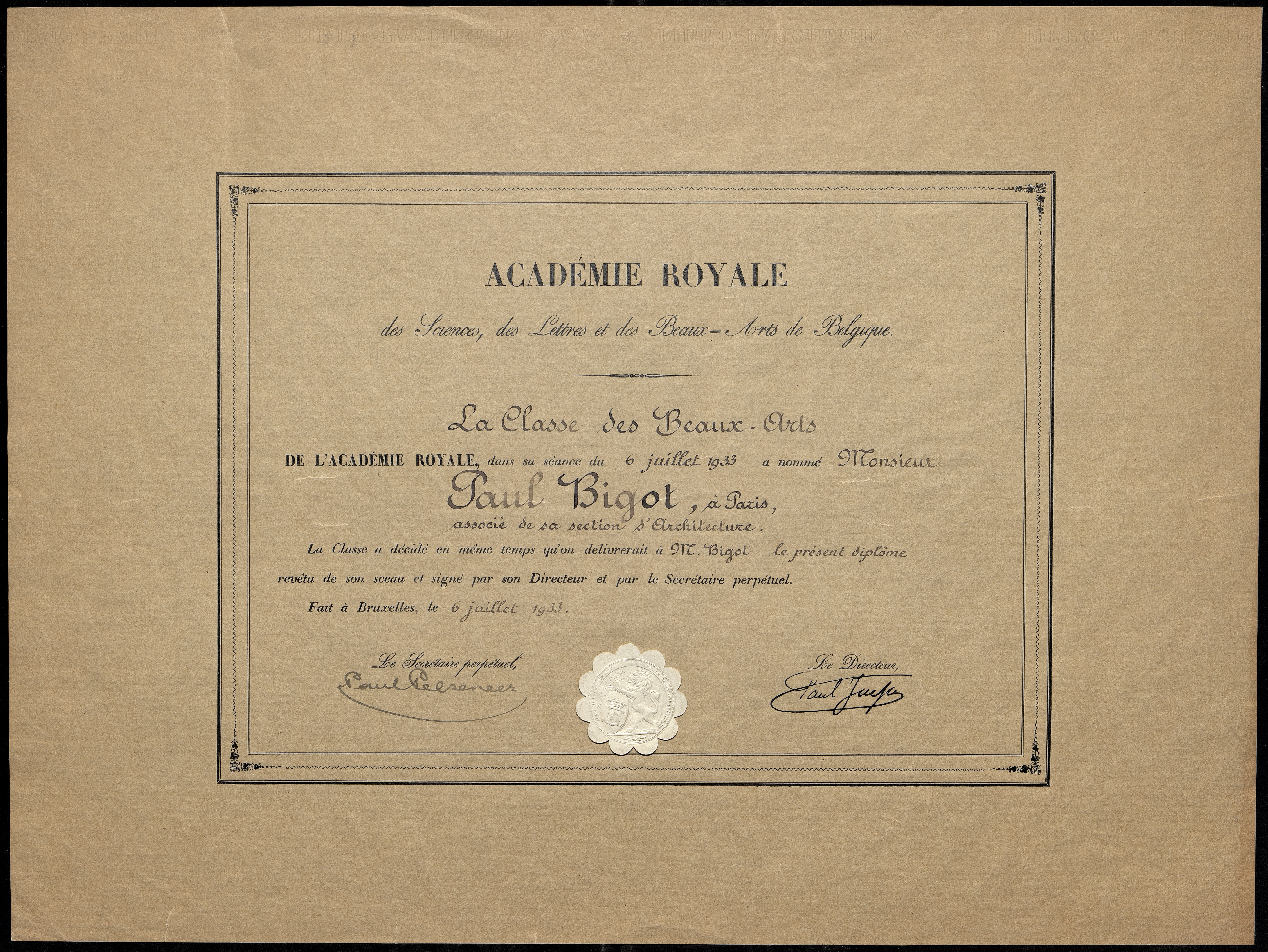 Par ce diplôme du 6 juillet 1933 de l'Académie royale des sciences, des lettres et des beaux-arts de Belgique, la classe des Beaux-arts nomme Paul Bigot associé à sa section d'architecture. Le document porte le sceau de l'Académie et un filigrane : FIBRO—PARCHEMIN Paris Date : 1933 Auteur : Académie royale de Belgique Descriptif : document imprimé Dimension : 52 x 39 cm Fichier : UNICAEN_ PB_MRSH_A4_2 Localisation : MRSH Conditionnement : Boîte E